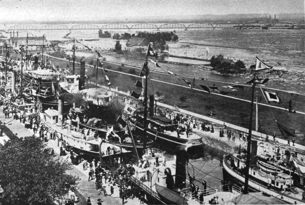 Fleet of 10 vessels in the Poe Lock, Sault Ste Marie, Michigan. 1905. Cropped from the book shown. Also shows the International Bridge in the background (railway).